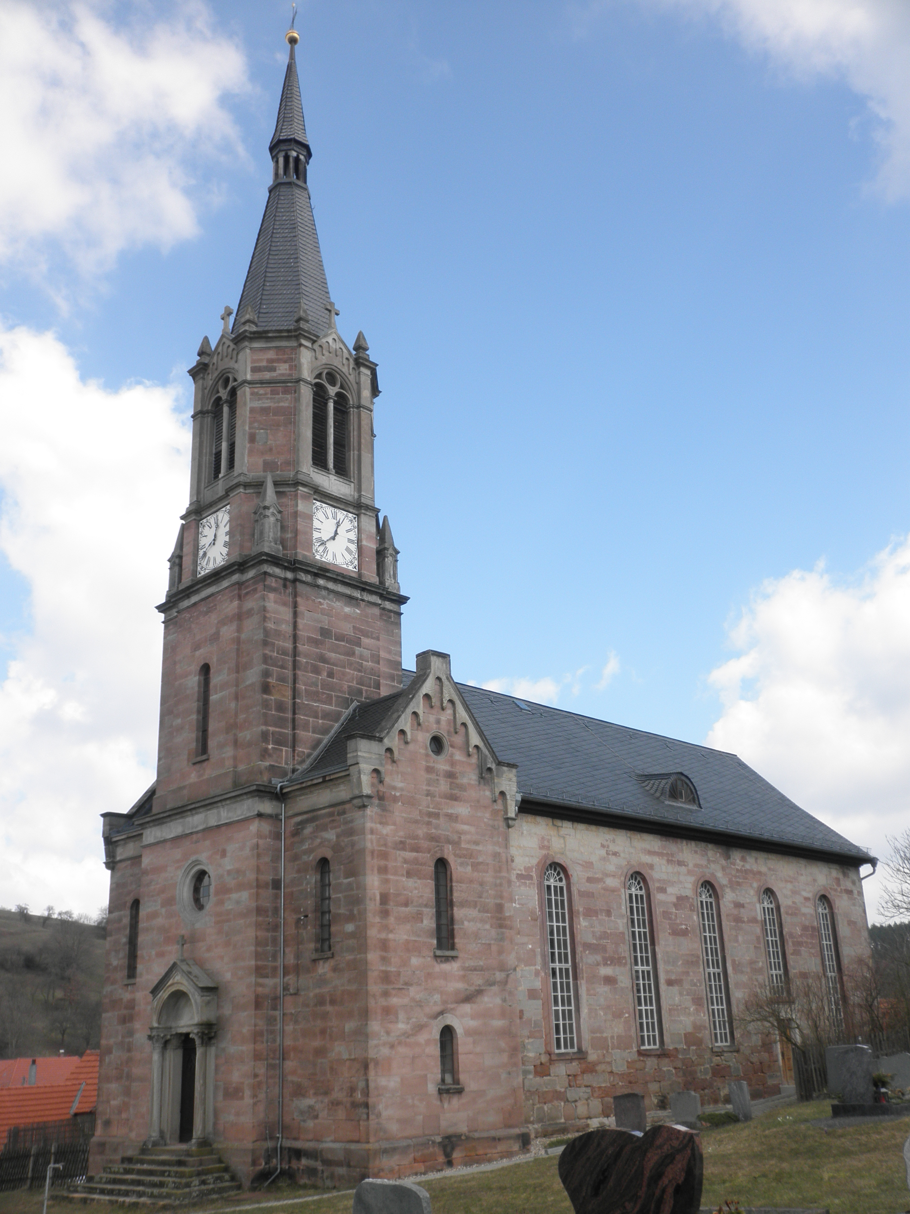 Church in Unterbodnitz in Thuringia